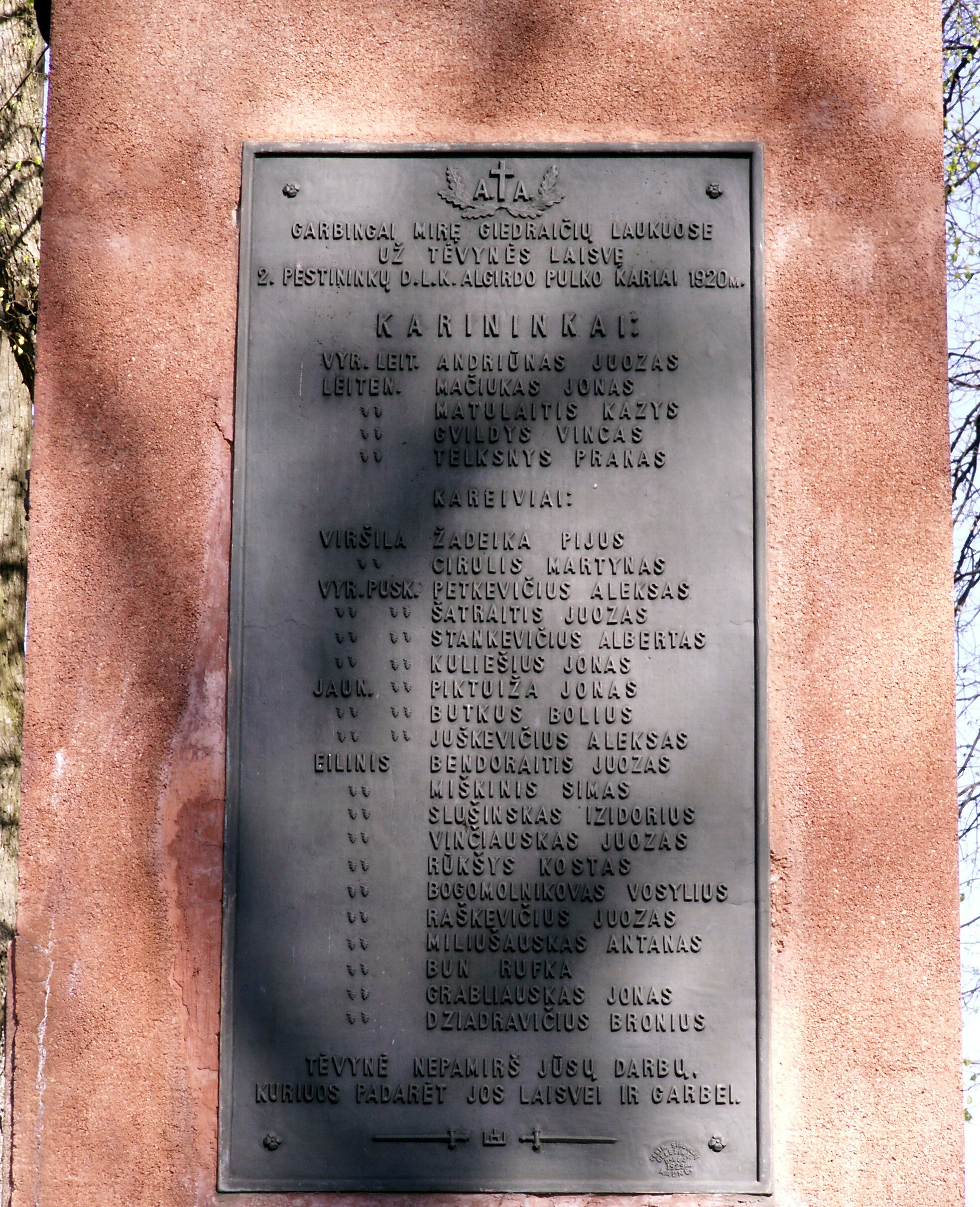 Obelisk in Giedraičiai, Lithuania